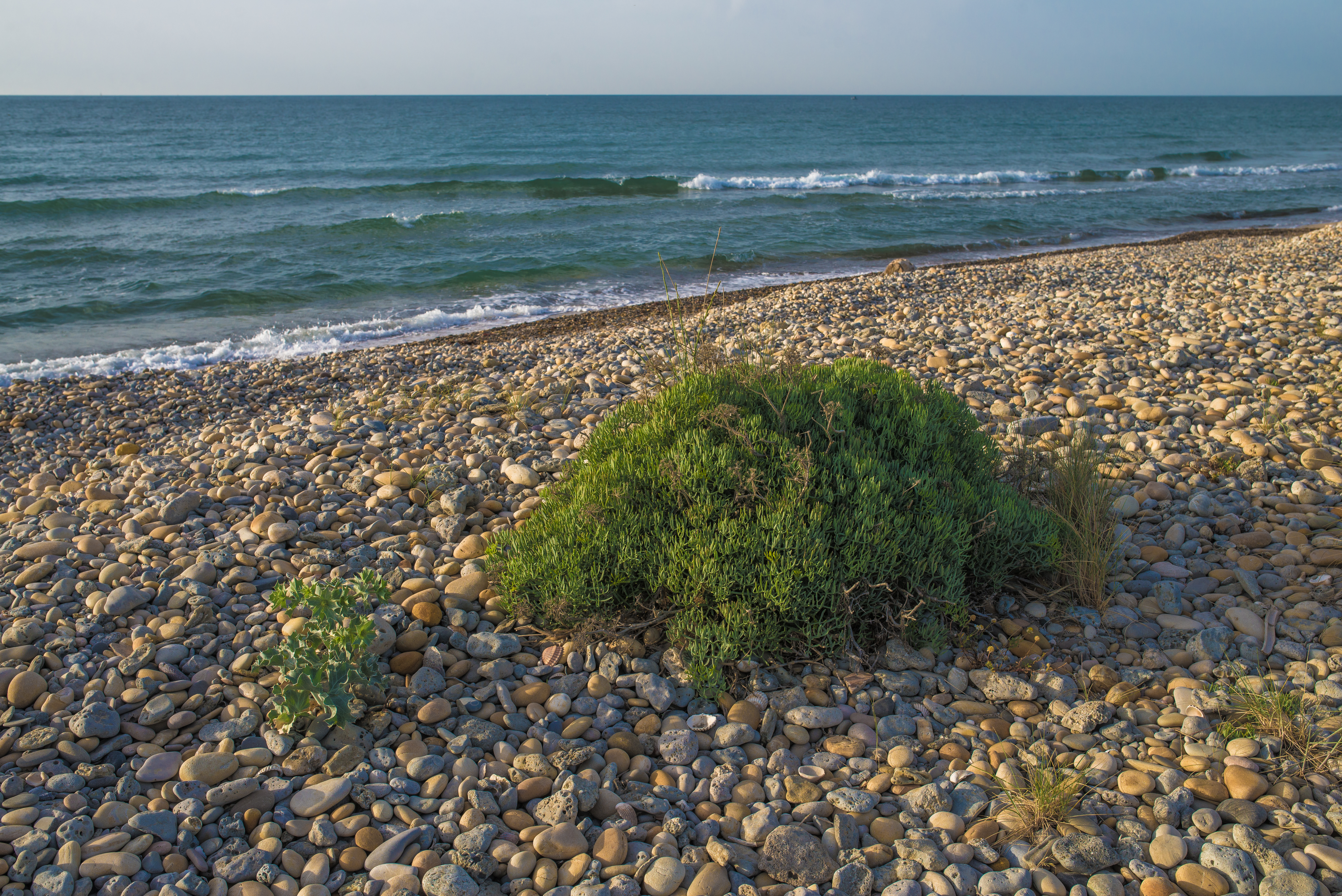 Sea fennel (Crithmum maritimum) on the beach in front of the Mediterranean Sea. Shown habitat: pebble area of the littoral zone. The smallest plant on the left is a Sea holly (Eryngium maritimum). Vic-la-Gardiole, Hérault, France.